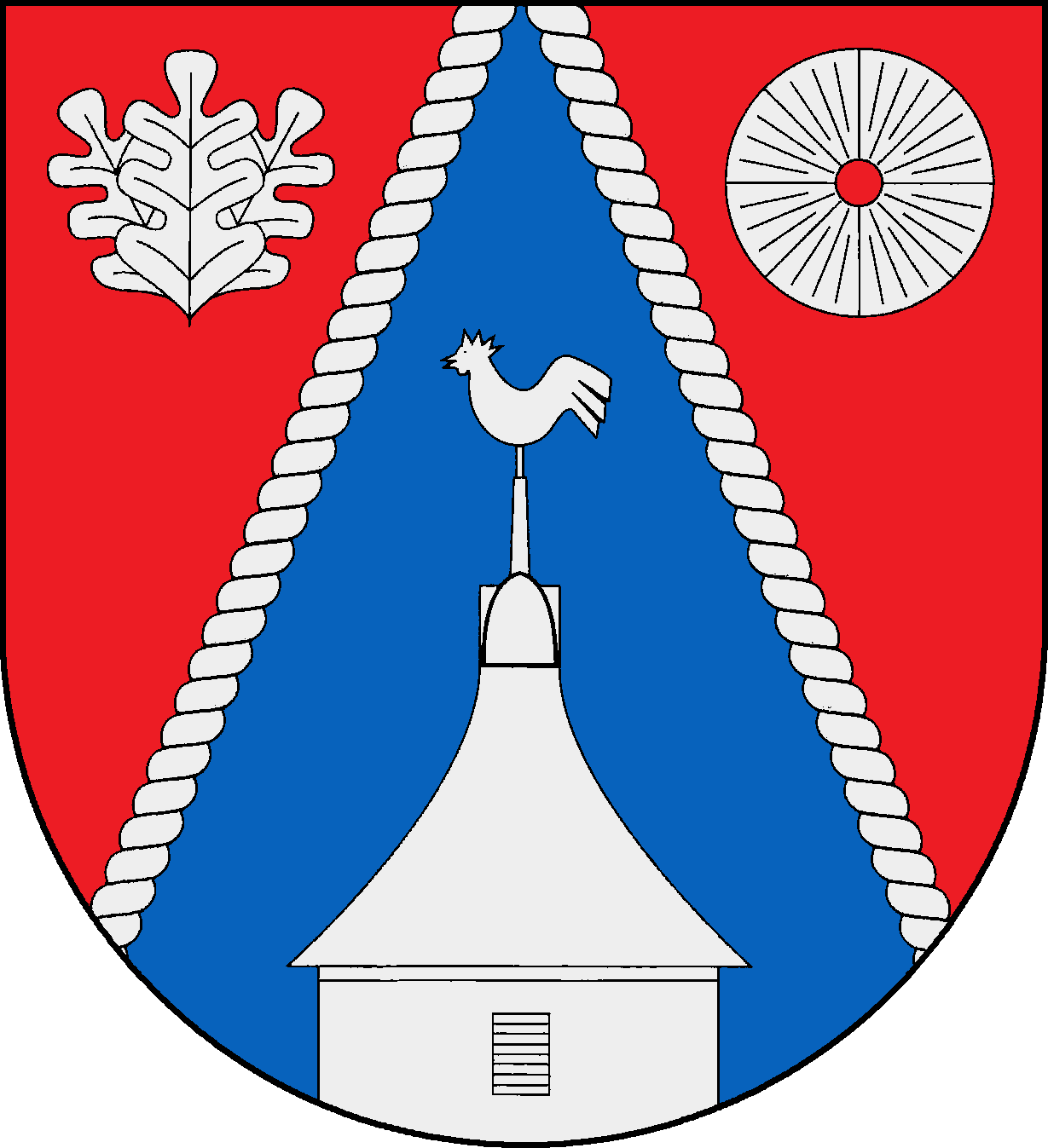 Coat of arms of the municipality Dänischenhagen in Schleswig-Holstein, Germany.